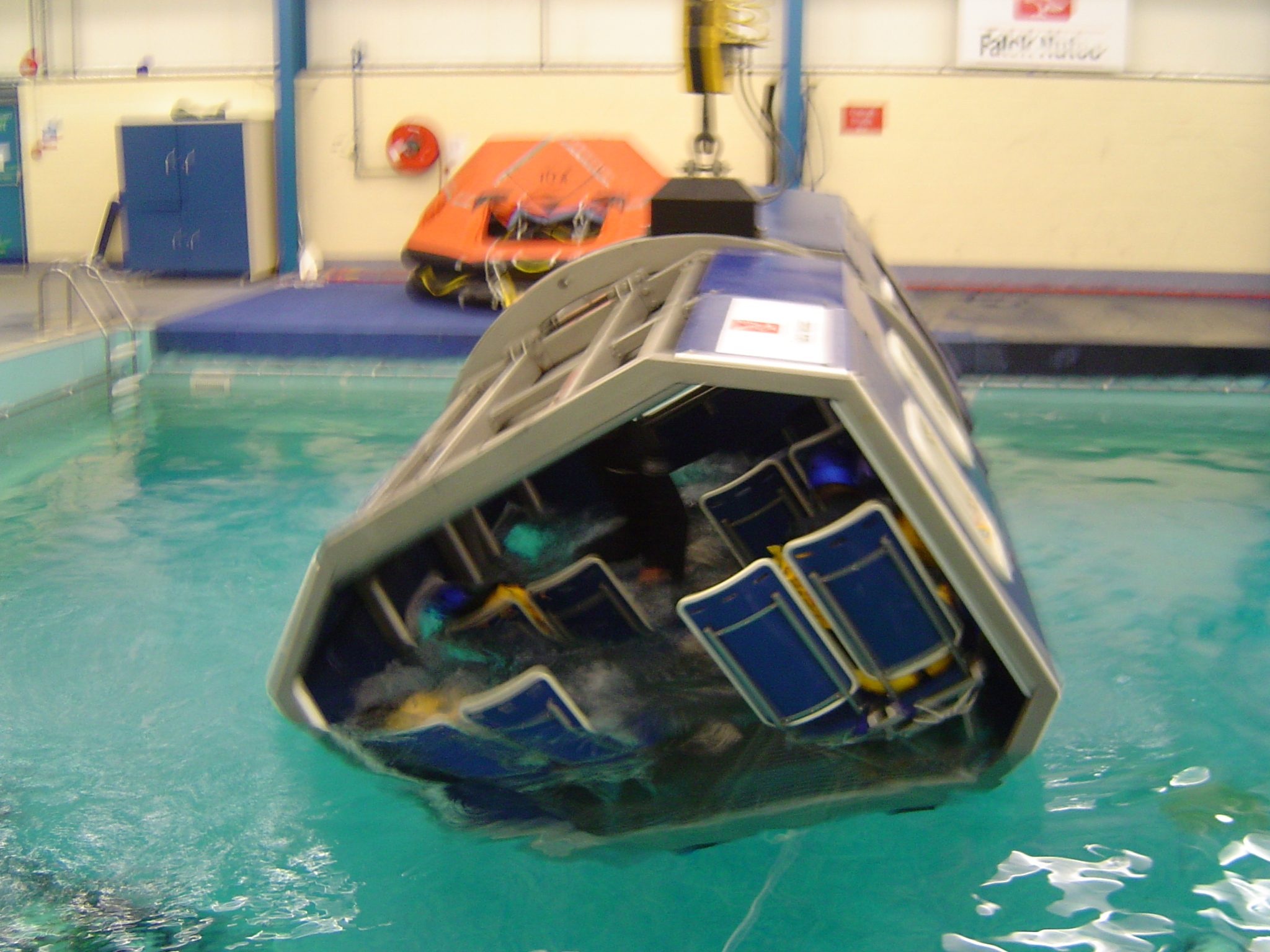 Offshore industry workers during HUET (Helicopter Underwater Evacuation Training) in training centre